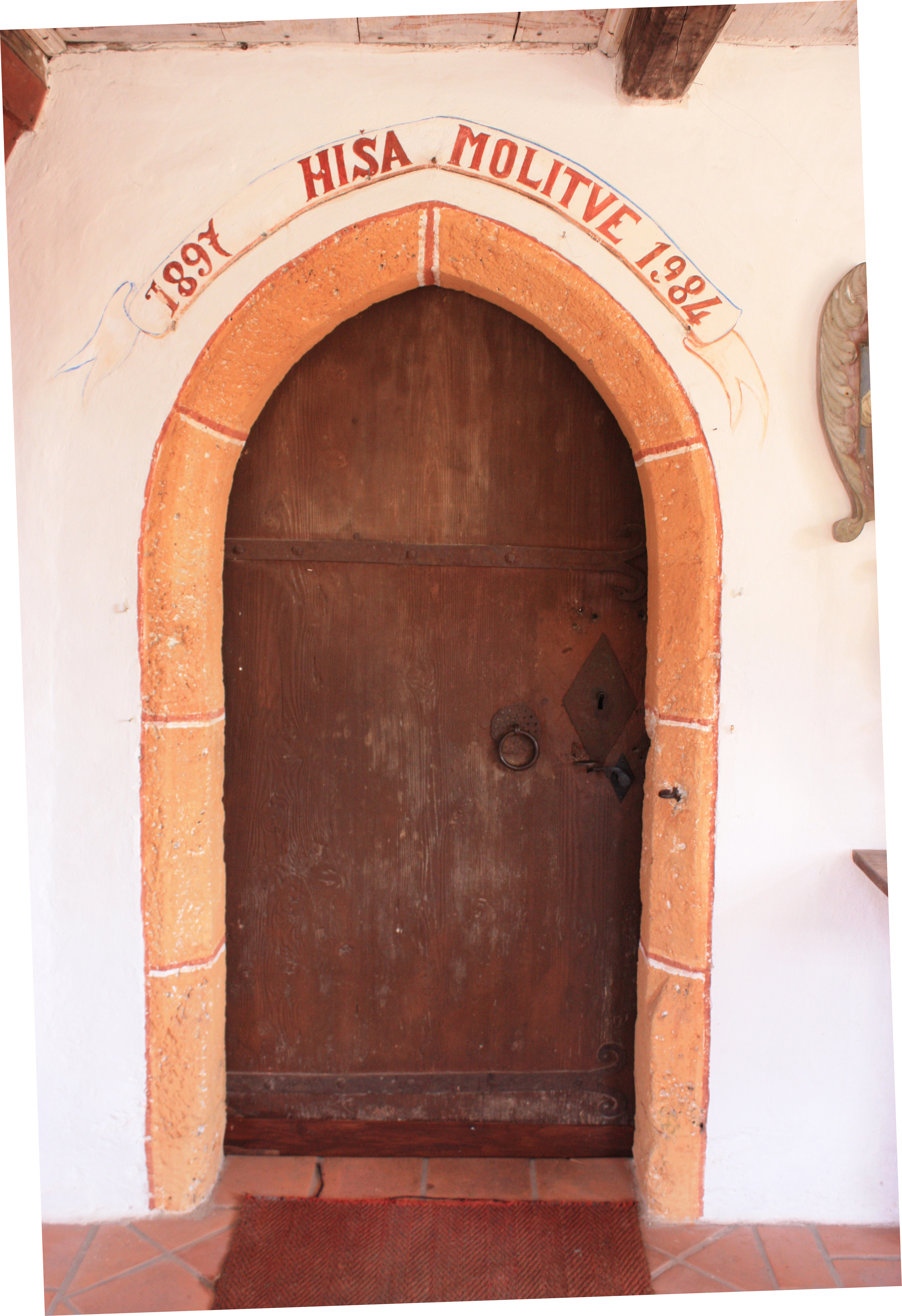 Subsidiary church - Saint Martin - Portal Locality: Mökriach Community:Eberndorf